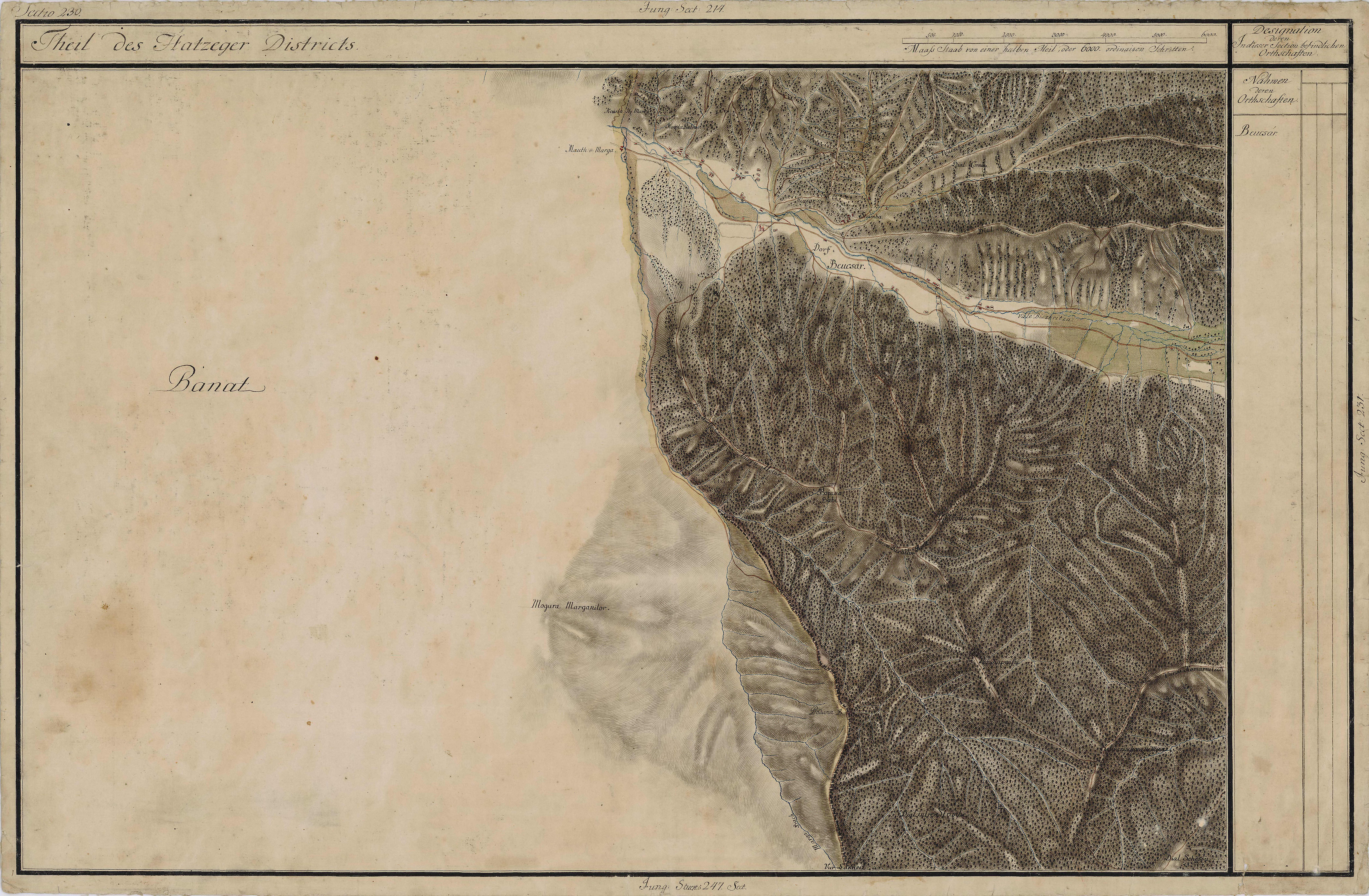 Grand Duchy of Transylvania, 1769-1773. Josephinische Landaufnahme pg.230